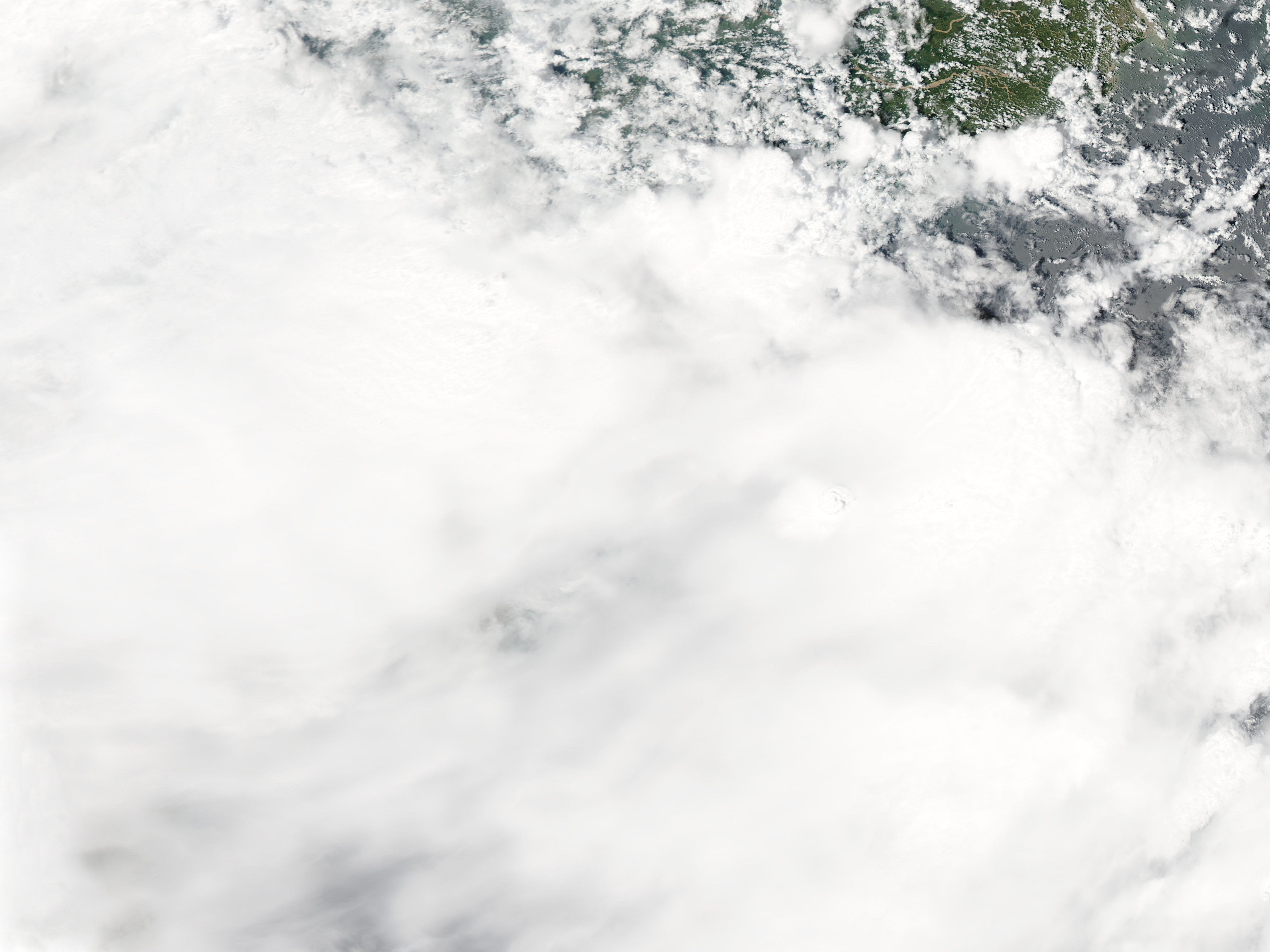 Visakhapatnam effected by monsoon in 2010